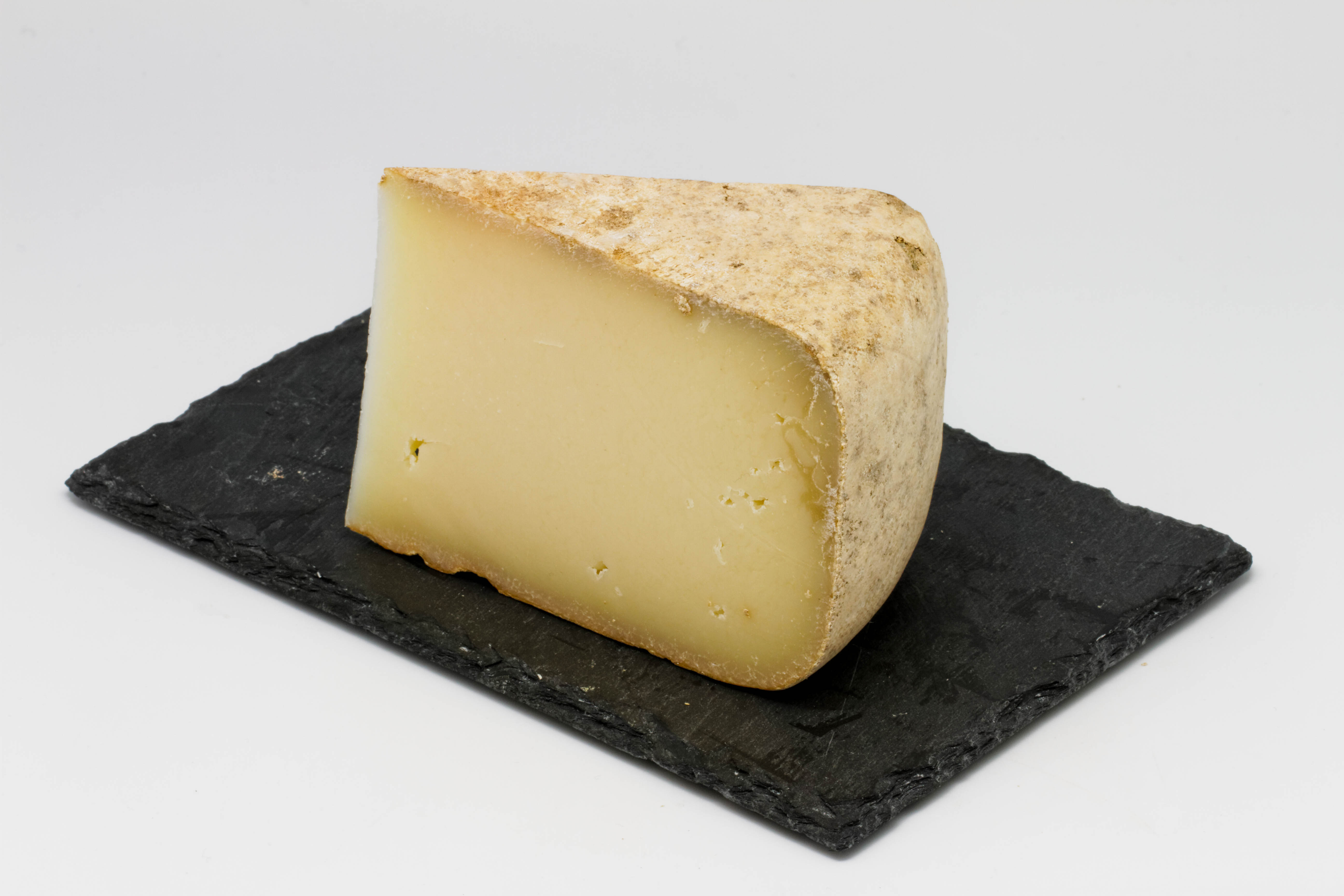 Ossau-iraty